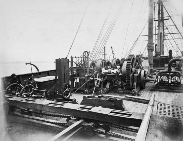 Reproduction ID: H2457 Maker: Unknown Date: 1865-1872